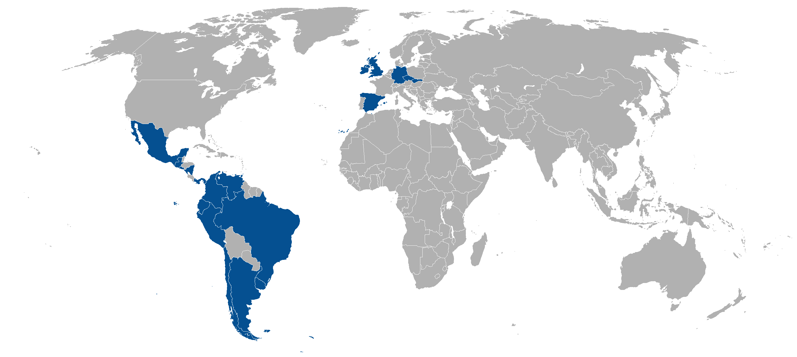 Telefonica Group world locations